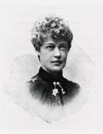 The Swedish publisher and feminist Alma Åkermark (1853—1933), likely in the 1880s.